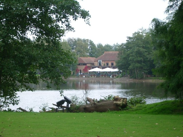 Silvermere. looking east